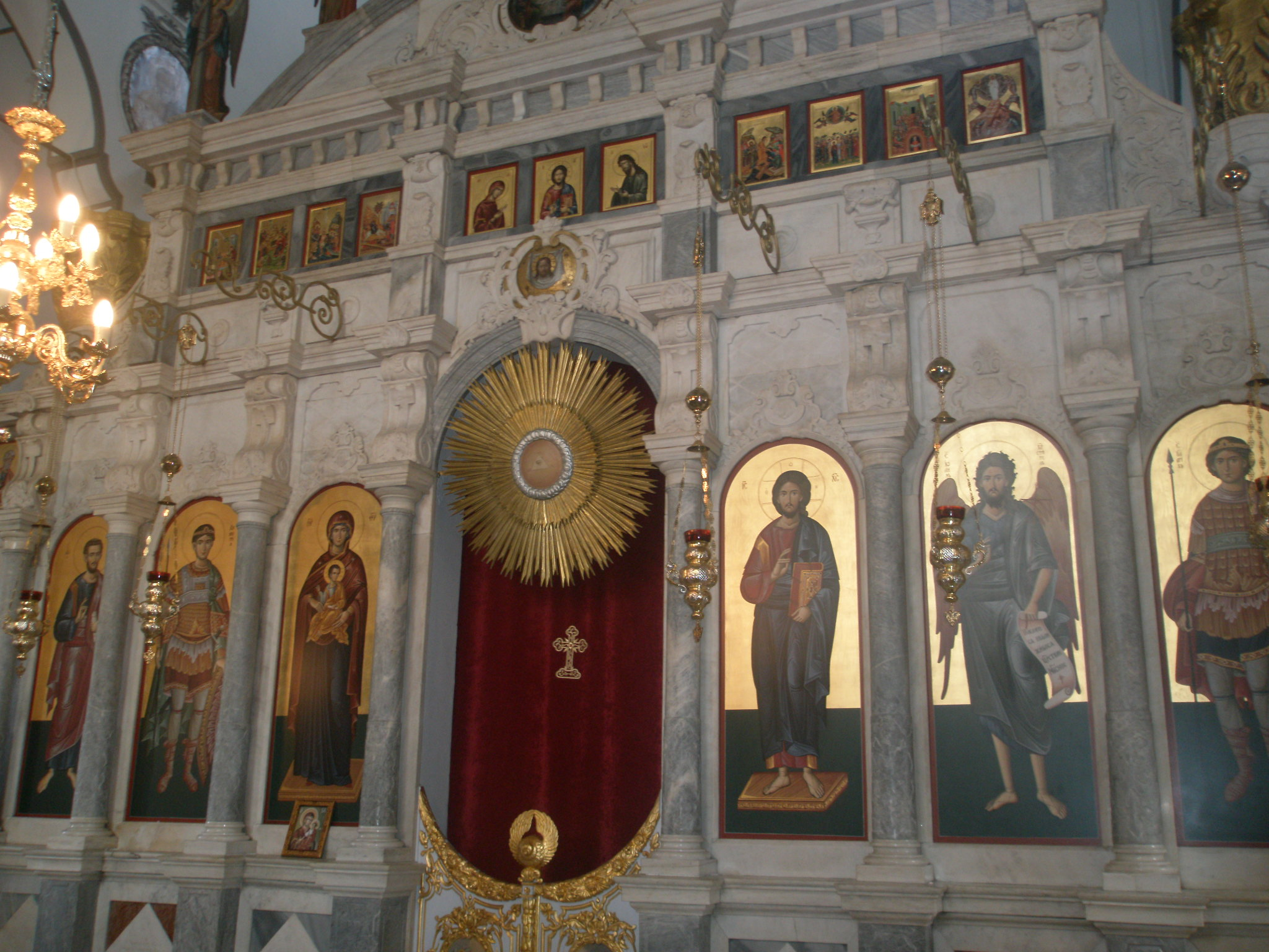 иконостас